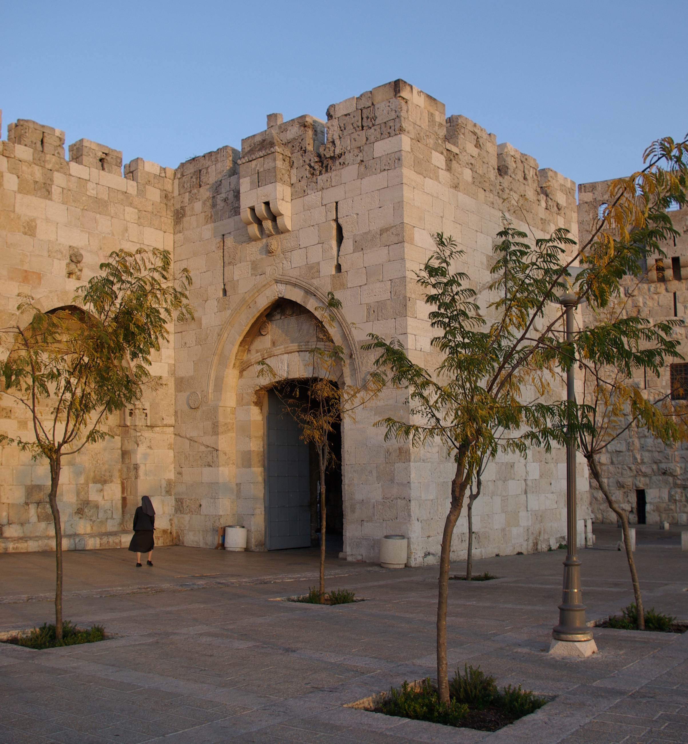 Jerusalem, Jaffa Gate